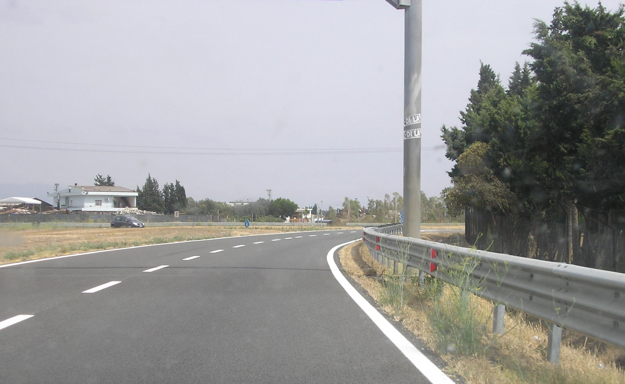 The SS 130 Iglesiente road in the cross with the SS 130 Dir, in the surroundings of Decimomannu, in Sardinia, Italy